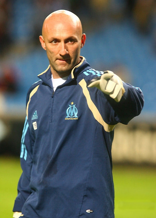 Fabien Barthez in action for Olympique de Marseille